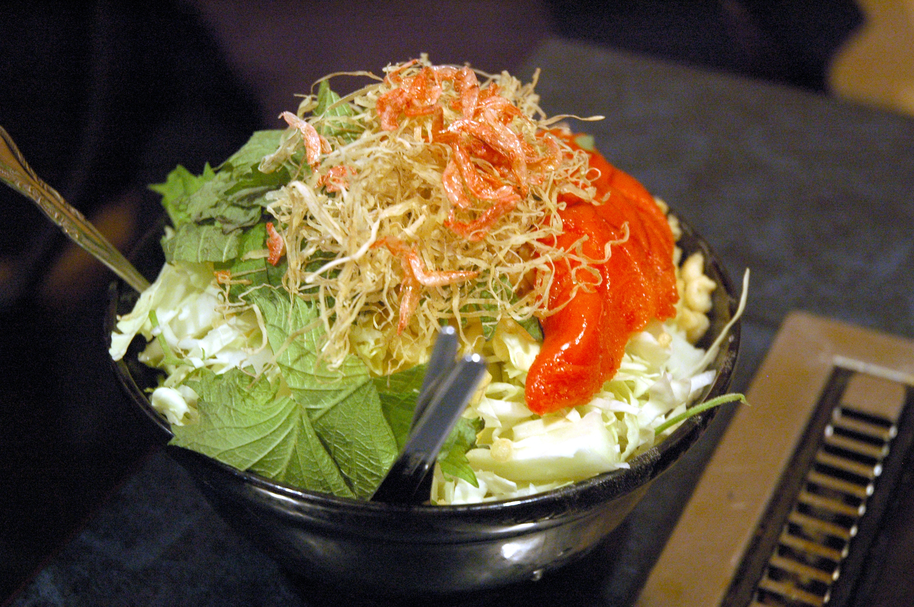 Monjayaki before cooking, with mentaiko (cod roe) and shiso (perilla). Taken at Oshio, Tsukishima, Tokyo.